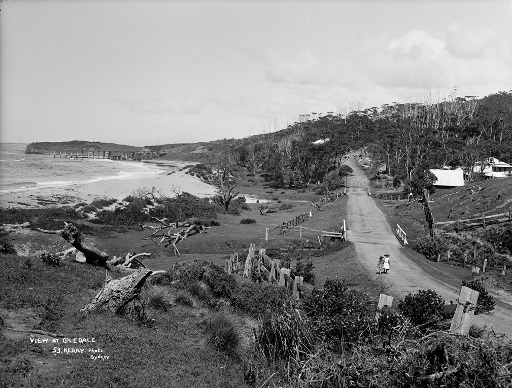 'Beaches' Pictures from The Powerhouse Museum This files was posted to Flickr by The Powerhouse Museum (See their website for further information). Many thanks to the Powerhouse Museum for helping release this wonderful material. This tag does not indicate the copyright status of the attached work. A normal copyright tag is still required. See Commons:Licensing for more information. This image is of Australian origin and is now in the public domain because its term of copyright has expired. According to the Australian Copyright Council (ACC), ACC Information Sheet G023v17 (Duration of copyright) (August 2014). Type of materialCopyright has expired if ... A Photographs or other works published anonymously, under a pseudonym or the creator is unknown:taken or published prior to 1 January 1955 B Photographs (except A):taken prior to 1 January 1955 C Artistic works (except A & B):the creator died before 1 January 1955 D Published editions1 (except A & B):first published more than 25 years ago E Commonwealth or State government owned2 photographs and engravings:taken or published more than 50 years ago and prior to 1 May 1969 1 means the typographical arrangement and layout of a published work. eg. newsprint. 2owned means where a government is the copyright owner as well as would have owned copyright but reached some other agreement with the creator. When using this template, please provide information of where the image was first published and who created it. You must also include a United States public domain tag to indicate why this work is in the public domain in the United States.